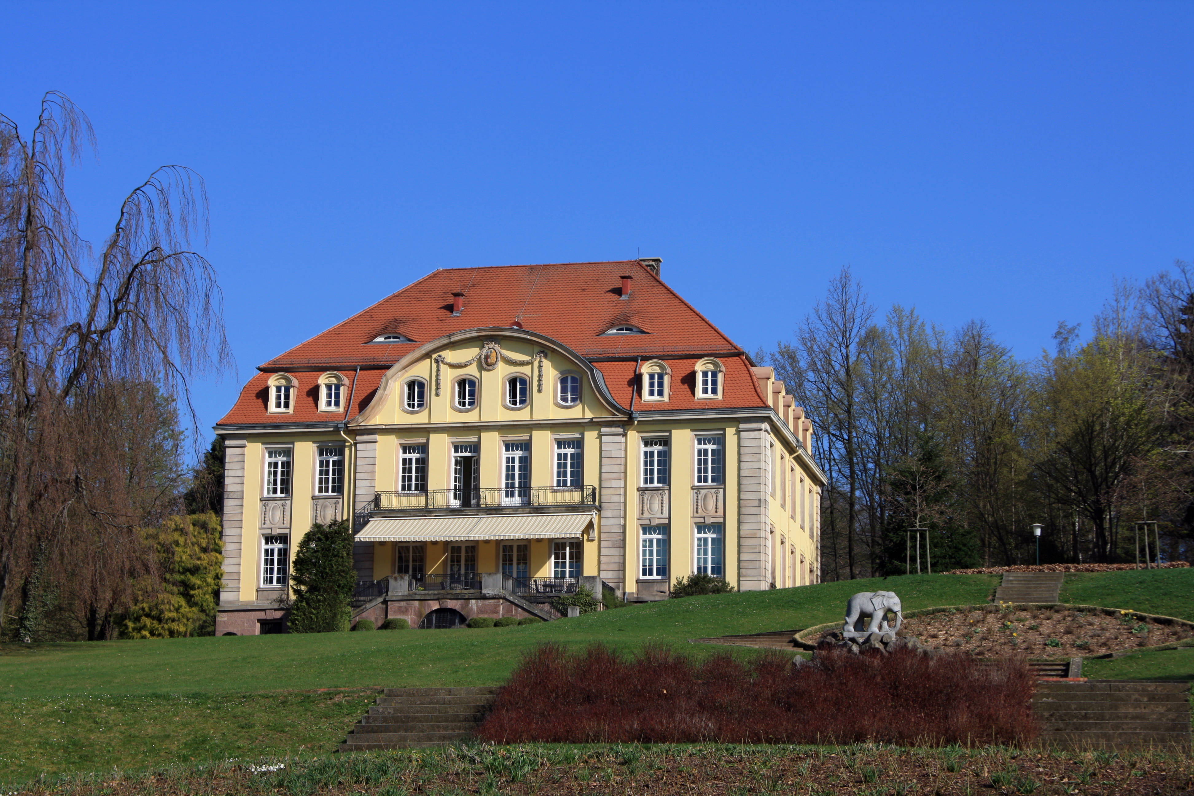 Parkvilla Clinic in the castle park of Gersfeld